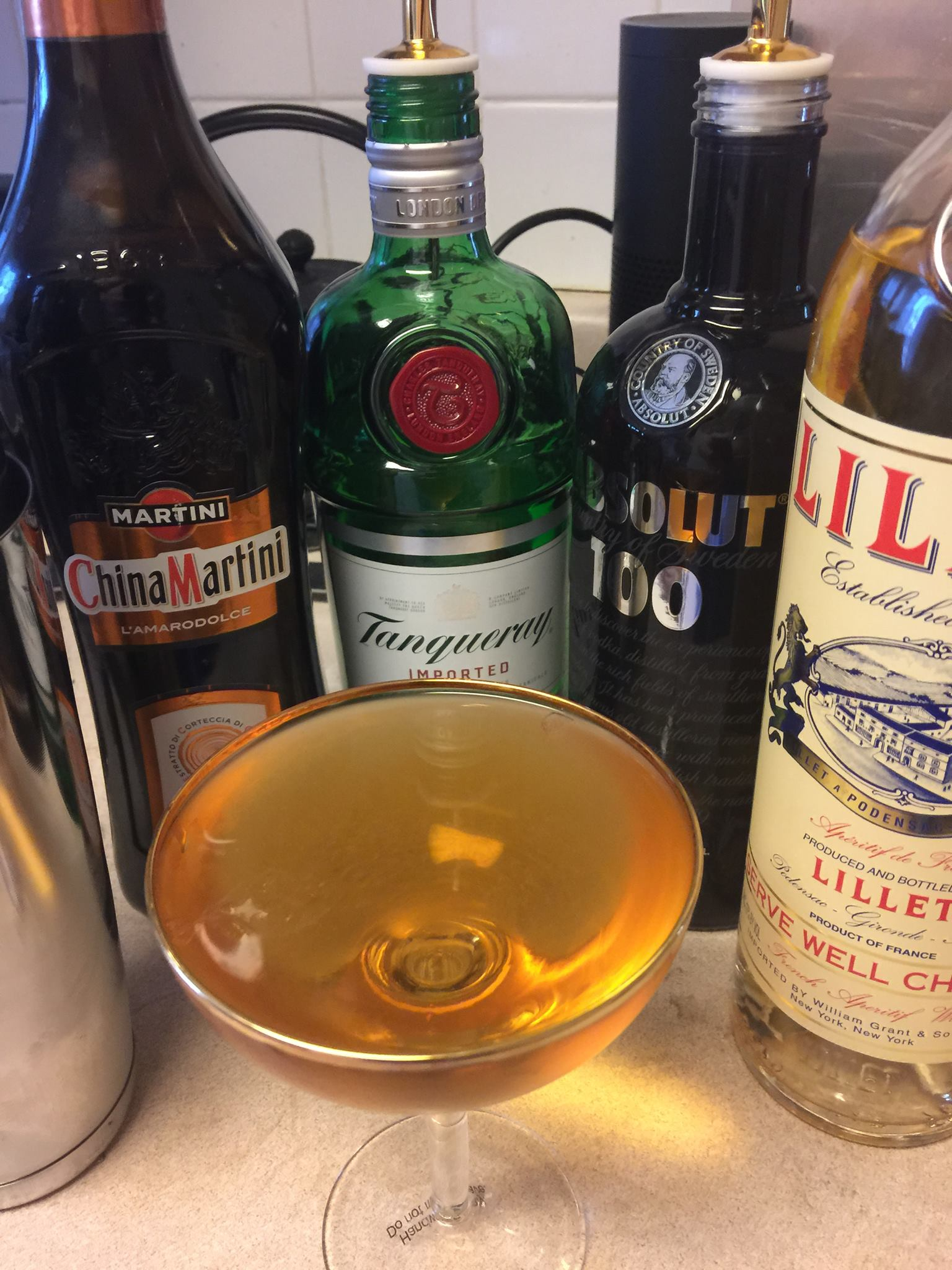 This is a Vesper Martini made correctly. It’s in the correct glass, I made it myself, then I drank it. After drinking it I decided to put it in the public domain. Not sure how that affects the fact that I drank it.